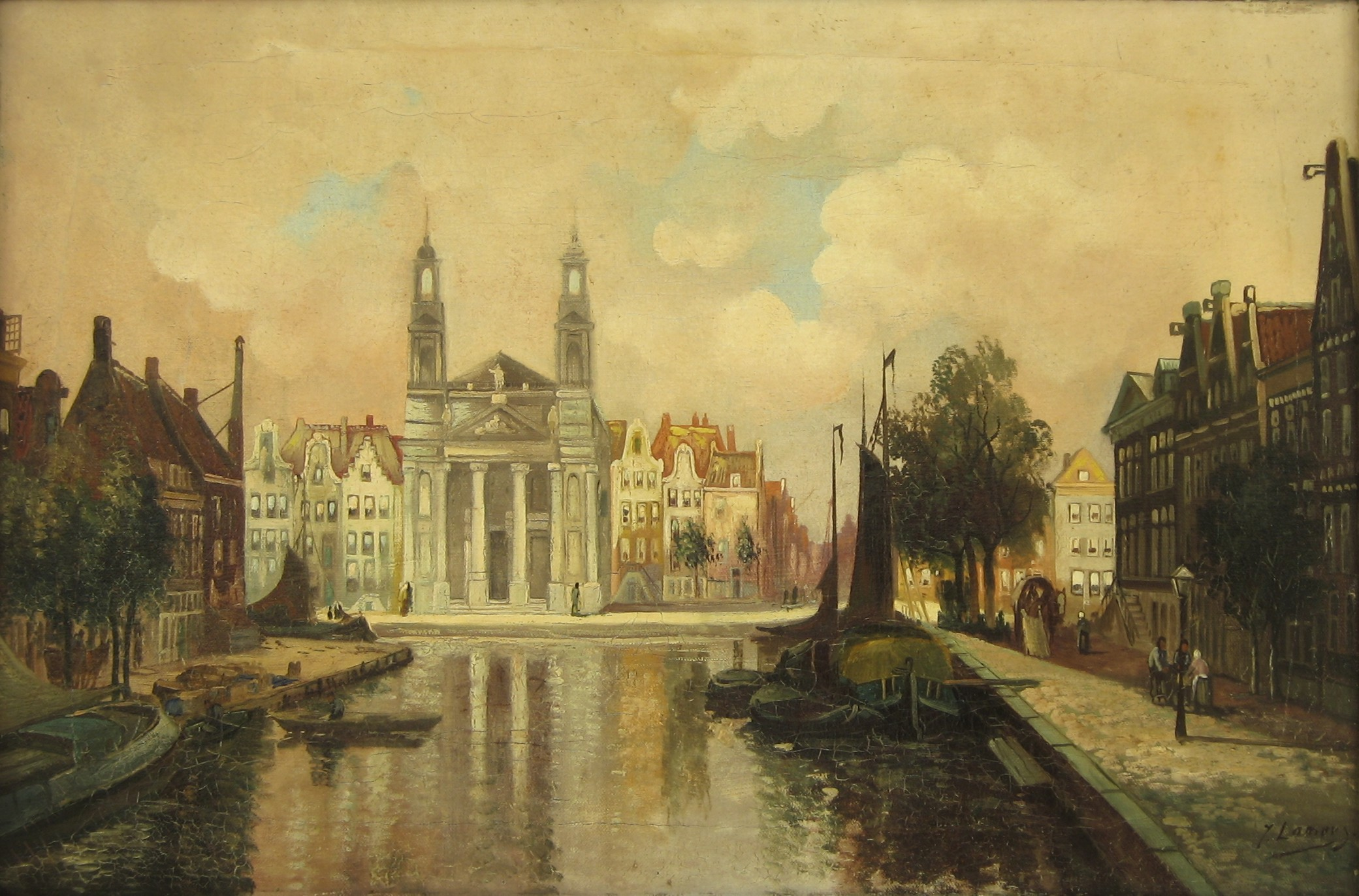 Painting by J. Lamers. The Moses and Aaron church in Amsterdam in 1895, The Netherlands. The painting is copied after a similar painting of Cornelis Christiaan Dommershuizen (1842-1928). The original painting is of the year 1895. The original painter has painted something different than the actual site. The three houses next to the church on the right and the three houses on the left are different. The boats are painted with sails, this is very unlikely in the middle of a city. Old photo's of Amsterdam make clear that the painter has painted a romantic painting. Therefor also this copy by J. Lamers is not the actual site. A date of "1880" is written with pencil on the back, but that date probably not the date of this painting. It is uncertain when J. Lamers painted this copy. Note that this photo (taken by me) is not in the public domain, although the painting is old. The license of this photo is set to "GNU Free Documentation License".